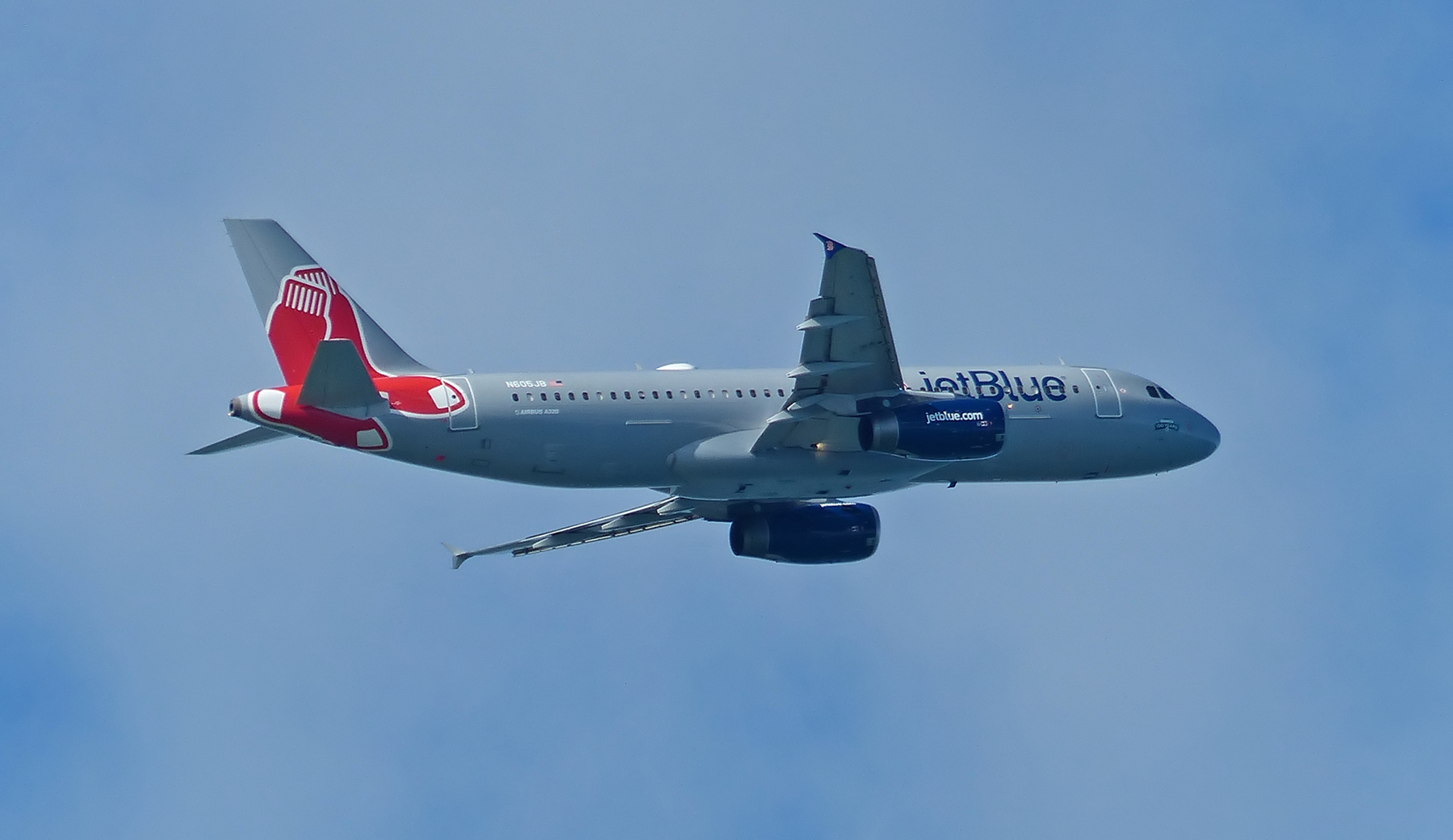 JetBlue N605JB celebrates the 100th anniversary of the Boston Red Sox baseball team.